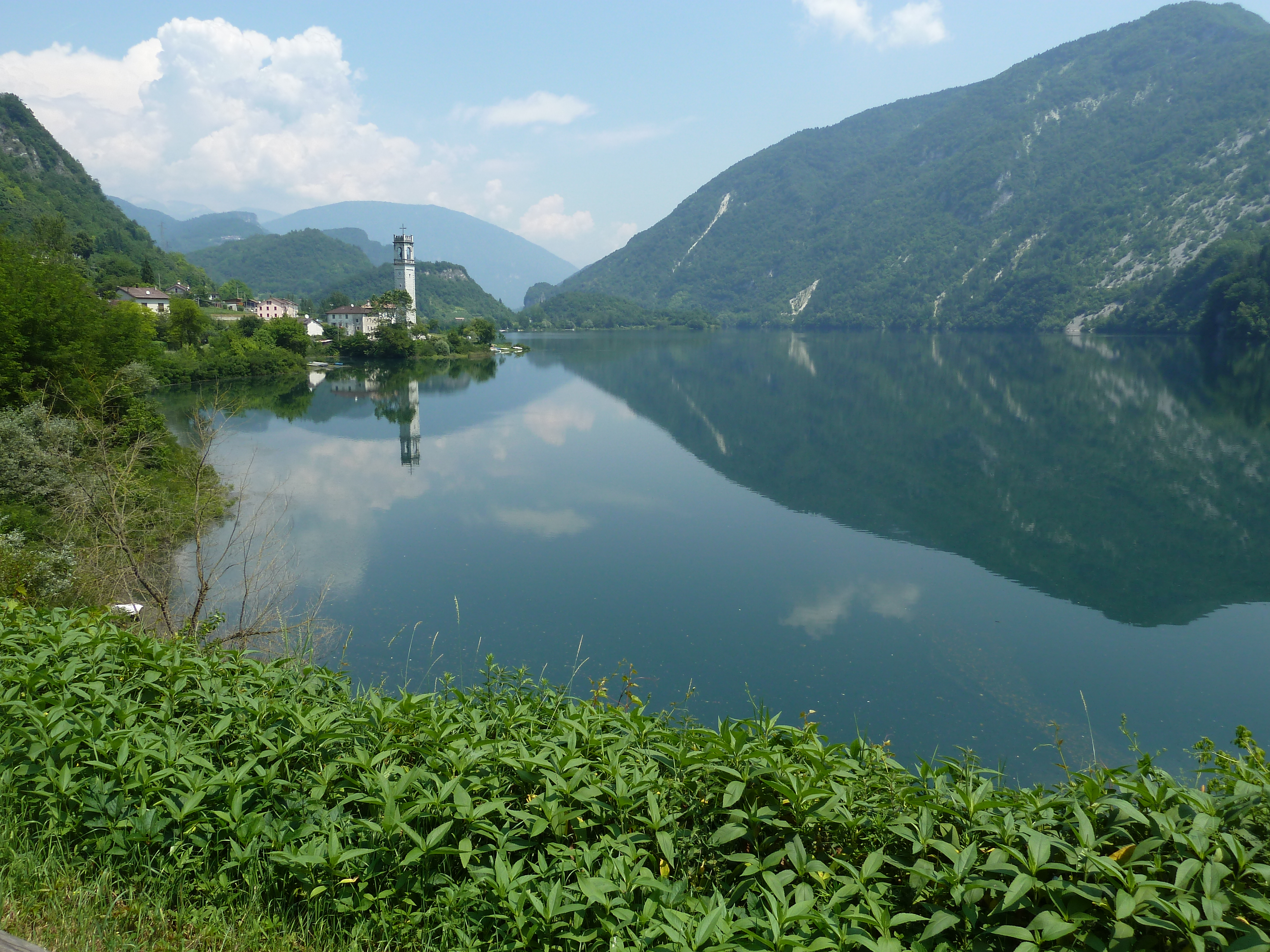 Lago del Corlo, artificial lake in Arsiè, Belluno, Italy.